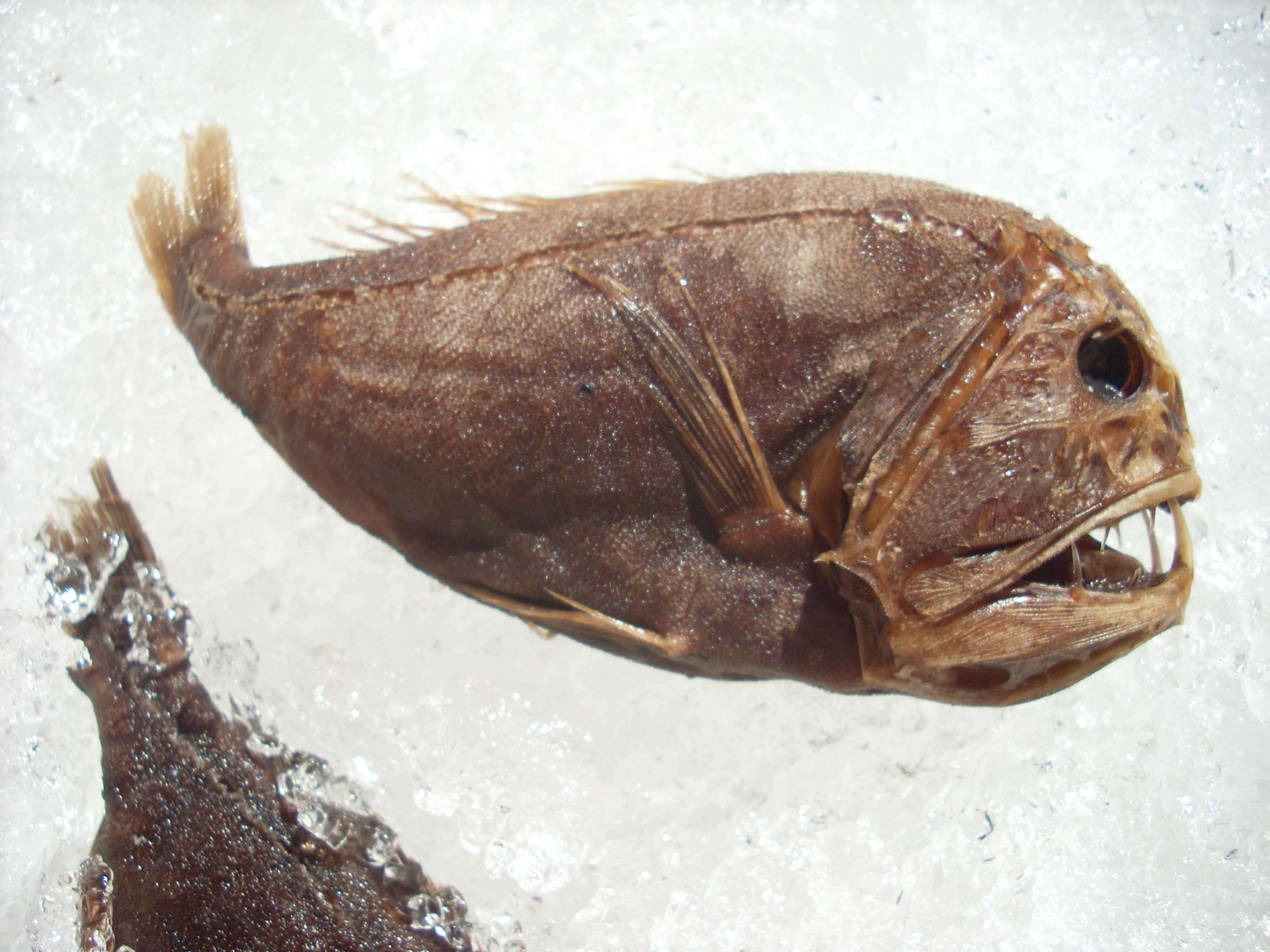 Fangtooth (Anoplogaster cornuta)